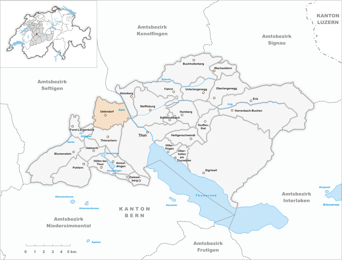 Municipality Uetendorf